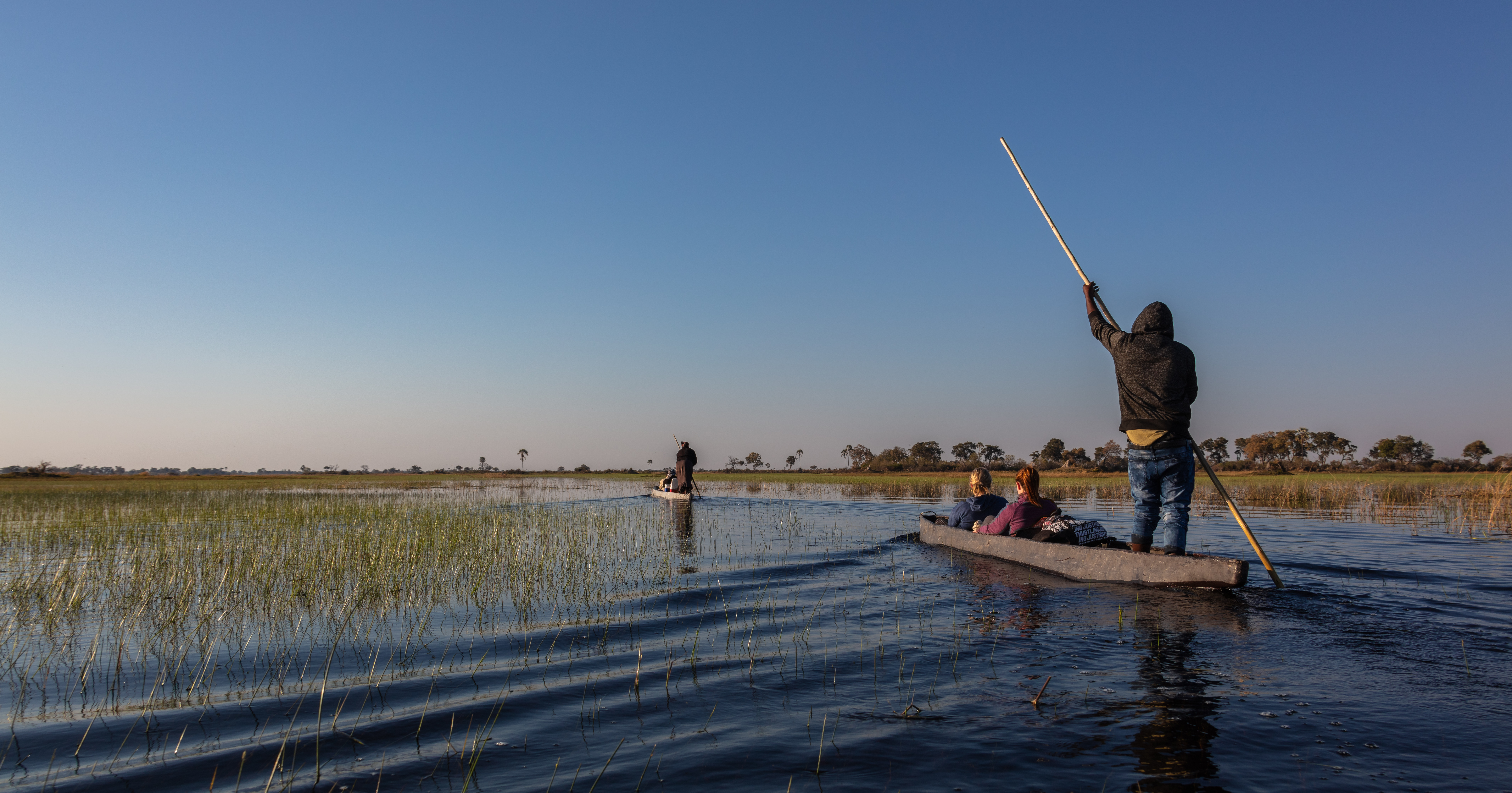 Crossing the Okavango Delta in makoro, Botswana